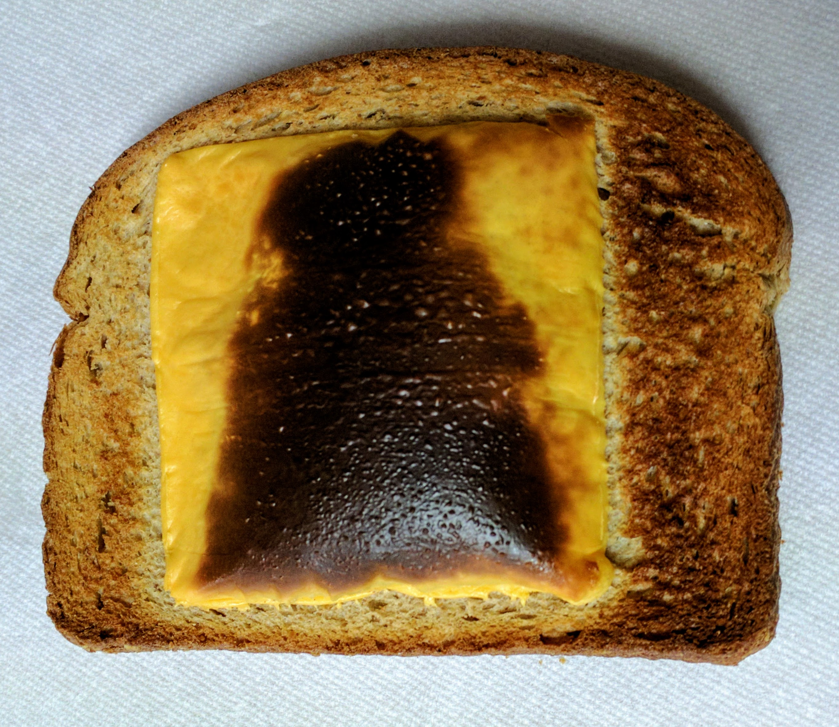 This is a classic cheese dream made with American Cheese.